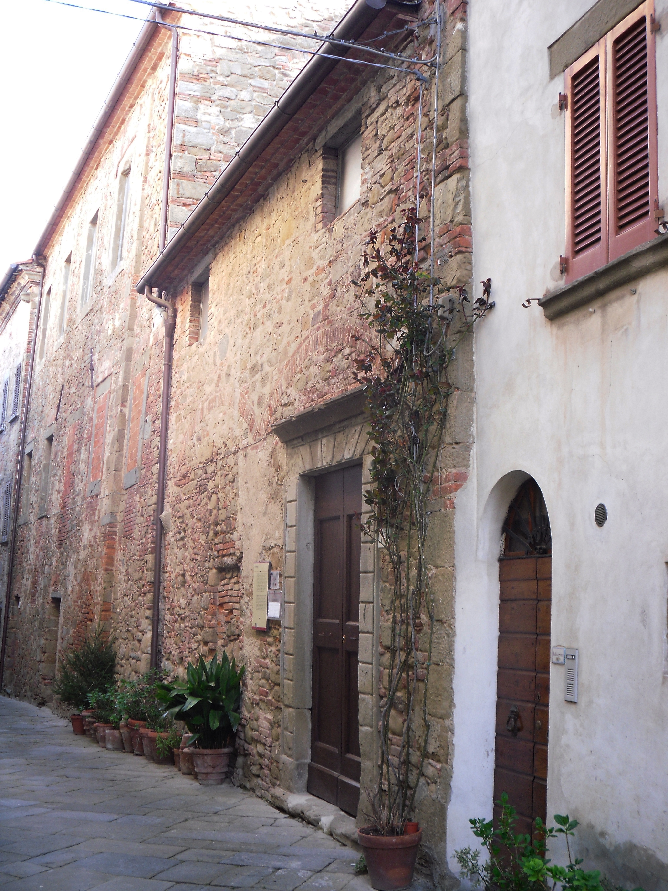 Synagogue of Monte San Savino (Province of Arezzo, Italy) - XVII century.